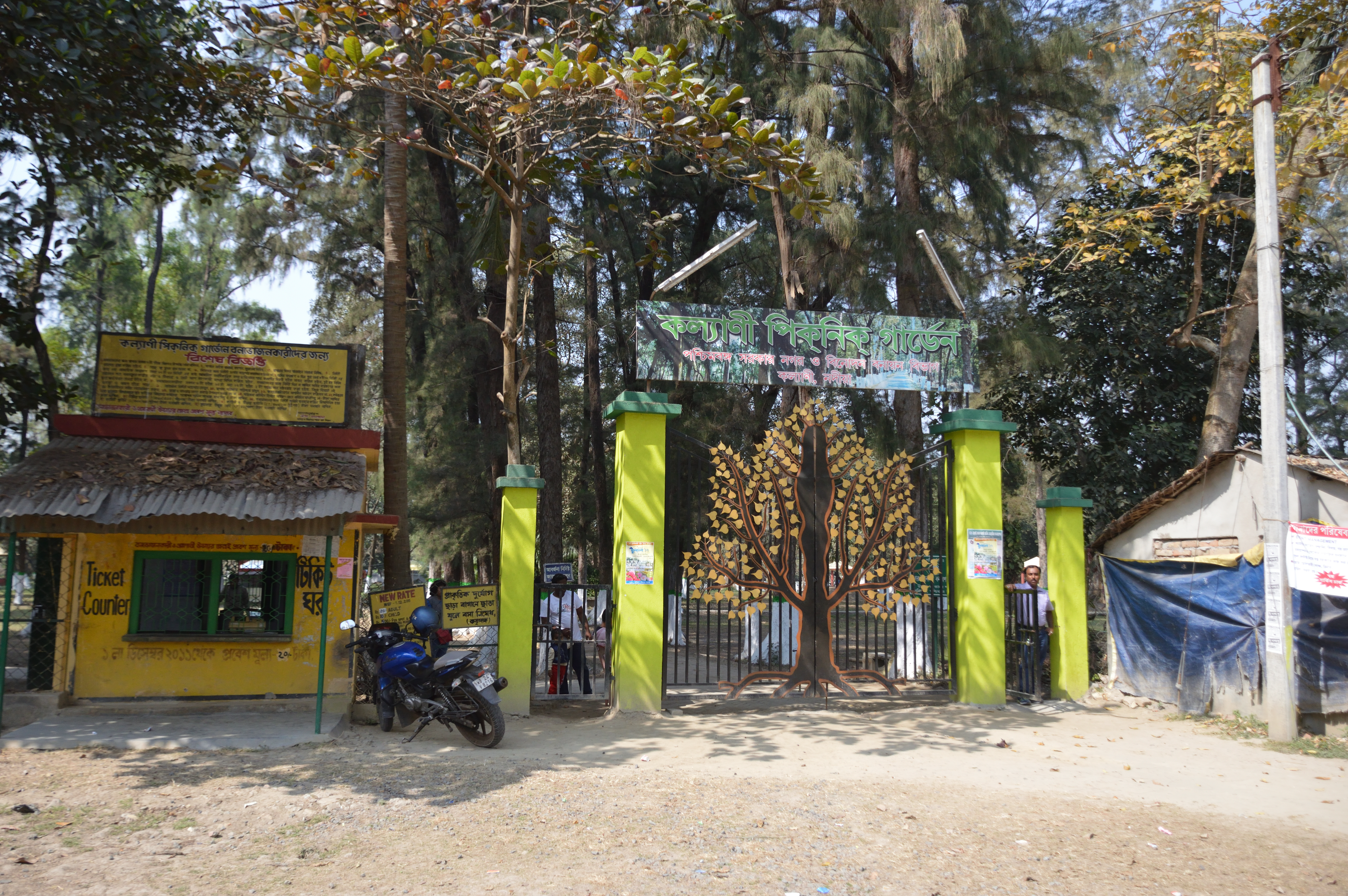 Photographed in Nadia district.